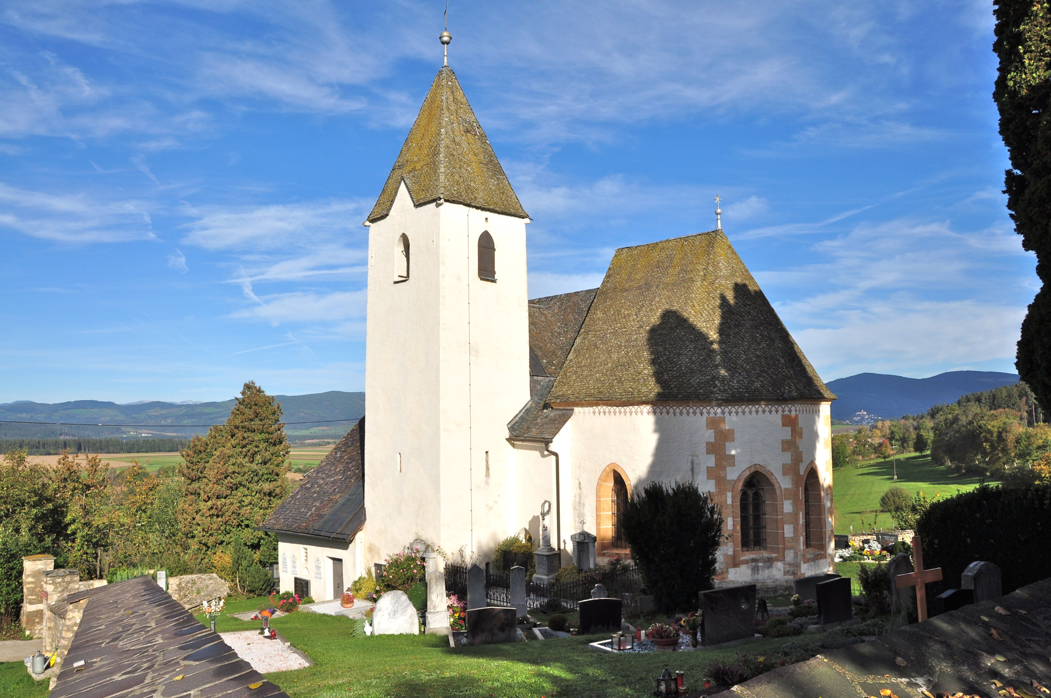 Parish church Saint Martin at Saint Martin #38, municipality Kappel am Krappfeld, district St. Veit an der Glan, Carinthia / Austria / EU